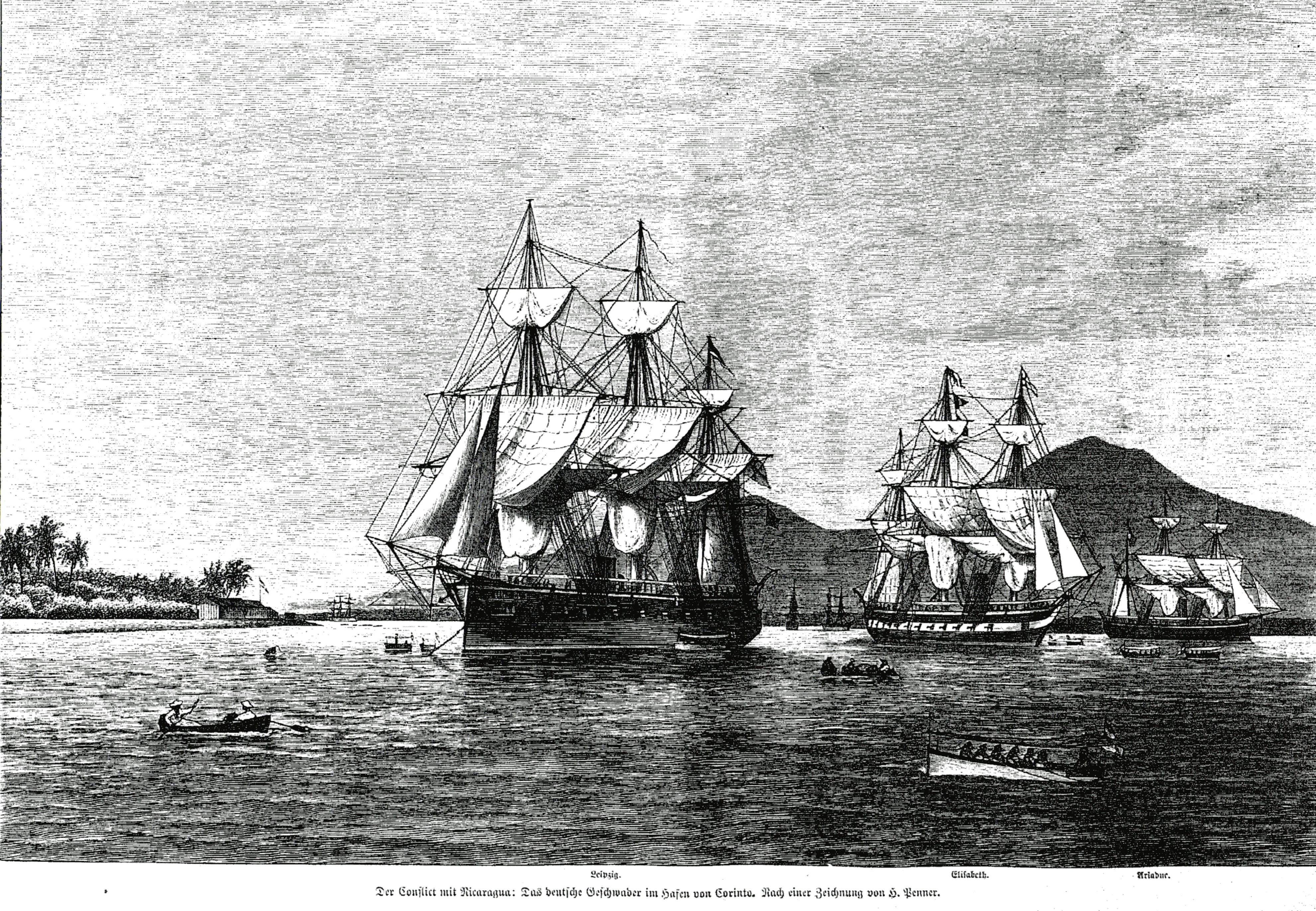 The German Central American squadron at Corinto/Nicaragua, march 1878, during the Eisenstuck affair. From the left SMS LEIPZIG, SMS ELISABETH and SMS ARIADNE. Drawing by Hermann Penner (?-1894)